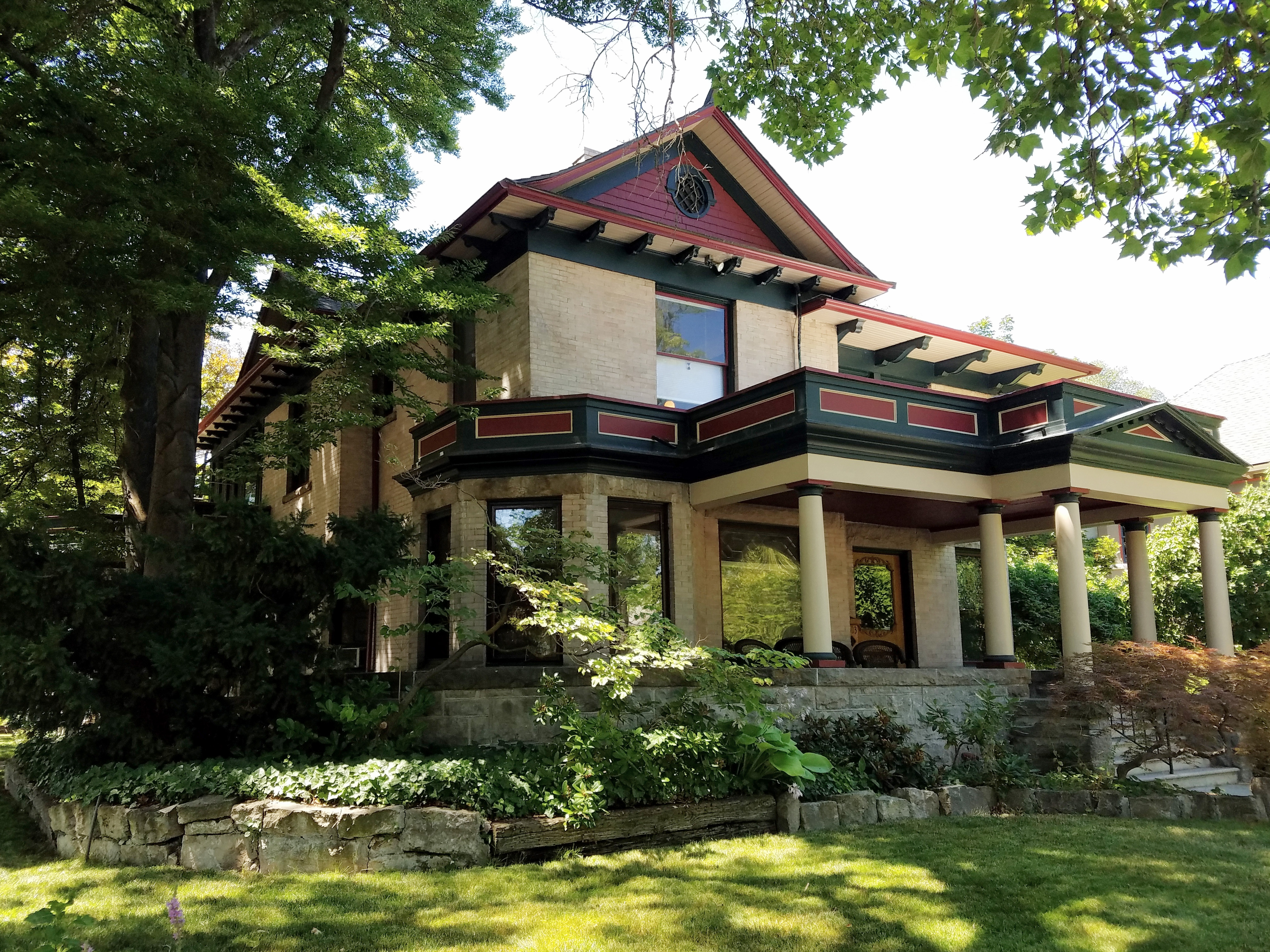 The Henry N. Coffin house (1905) in Boise, Idaho, was designed by Tourtellotte and Hummel and is listed on the National Register of Historic Places. The house is also part of the Fort Street Historic District.